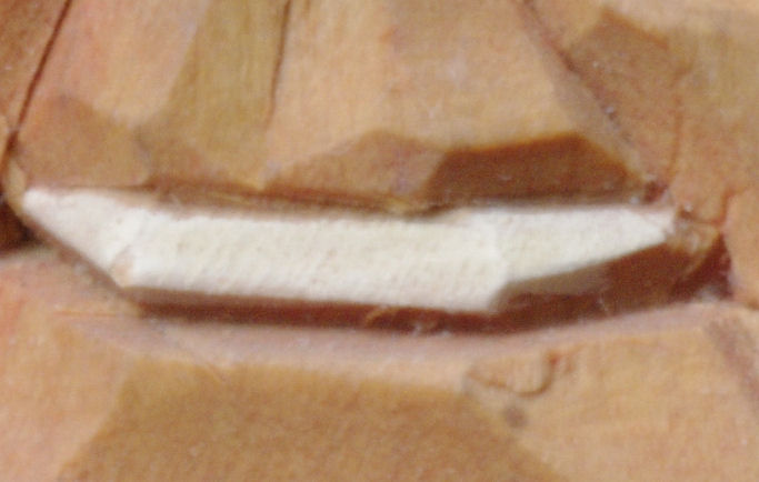 Diffraction in photograph at F32.